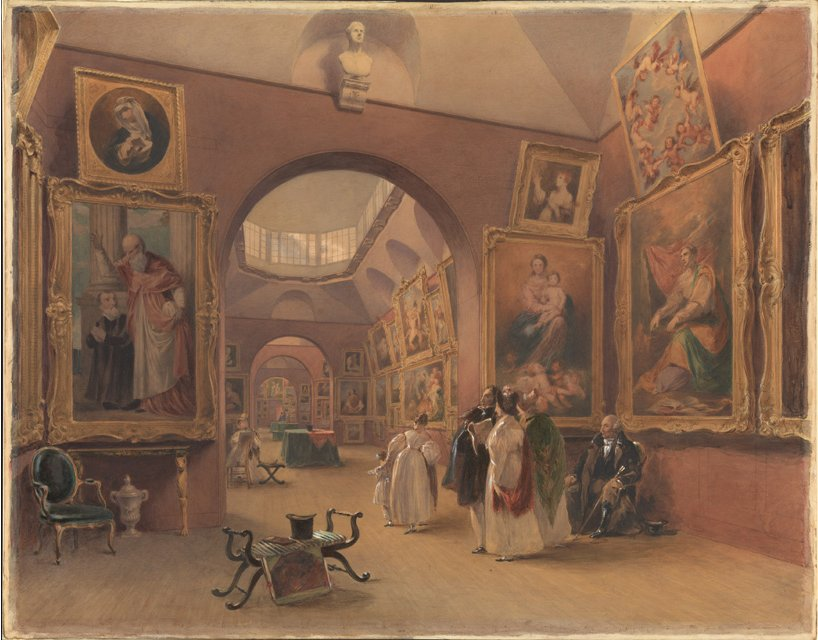 Viewing at Dulwich Picture Gallery by James Stephanoff, c. 1830, watercolor, Dulwich Picture Gallery